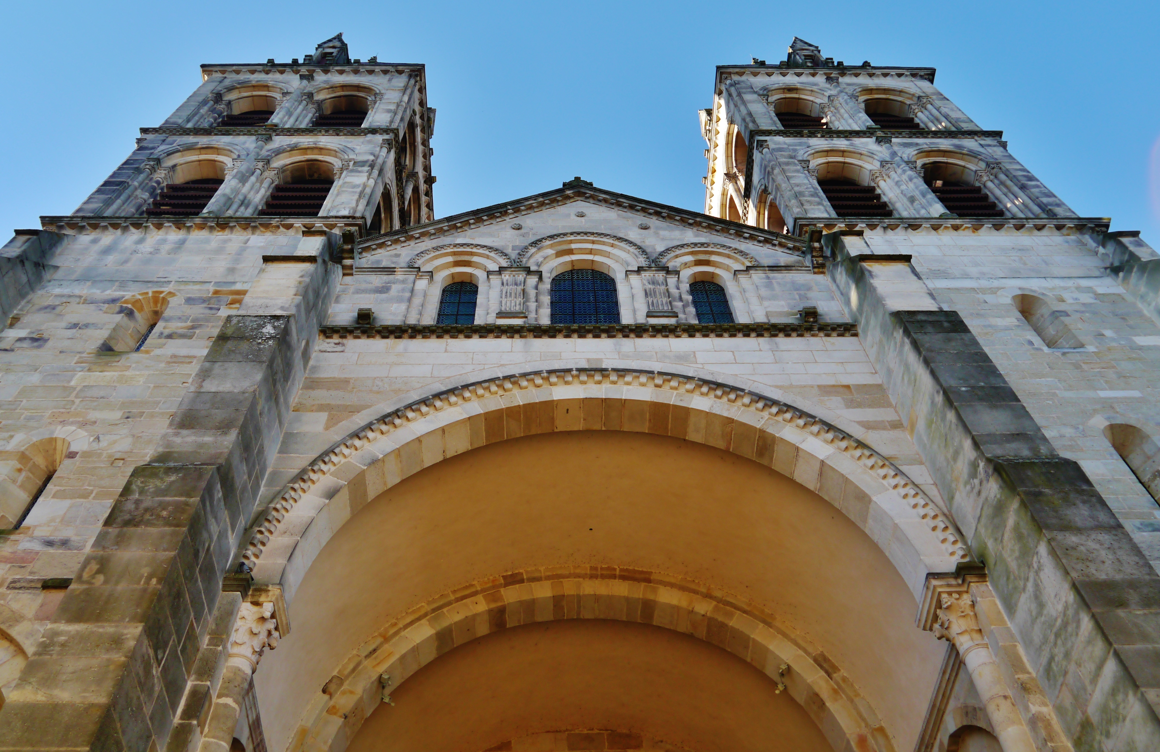 Facade of the Cathedral of St. Lazarus, Autun, Département of Saône-et-Loire, Region of Burgundy (now Burgundy-Frache-Comté), France